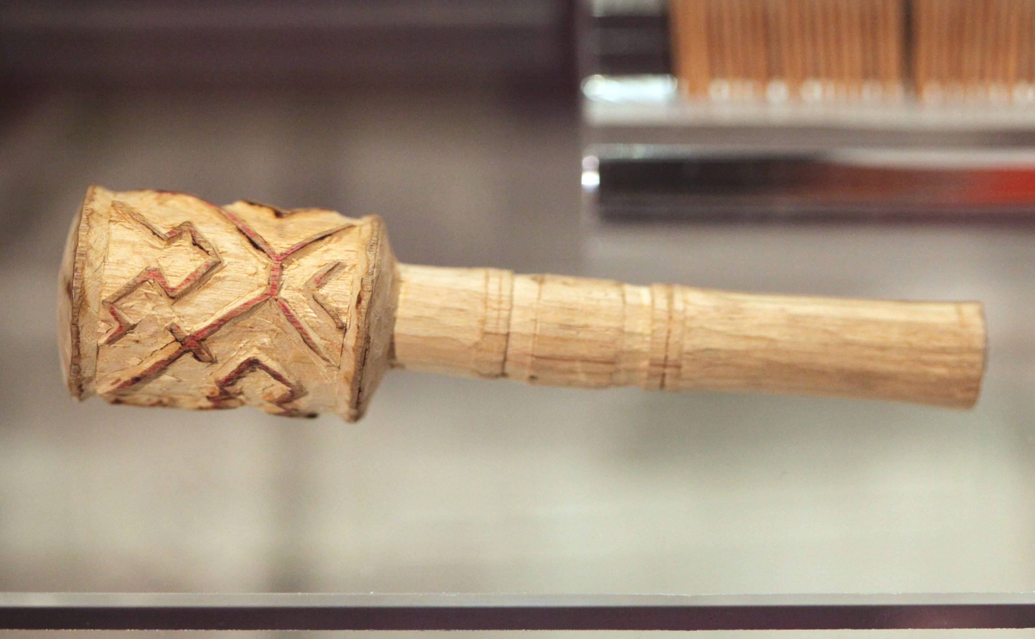 Shipibo-Conibo rolling stamp, used for makeup.